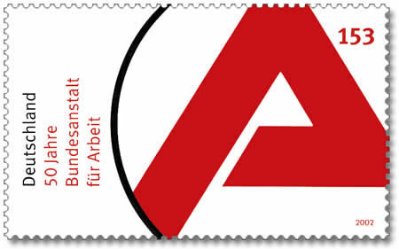 Stamp from Deutsche Post AG from 2002, 50th anniversary of Federal Employment Office